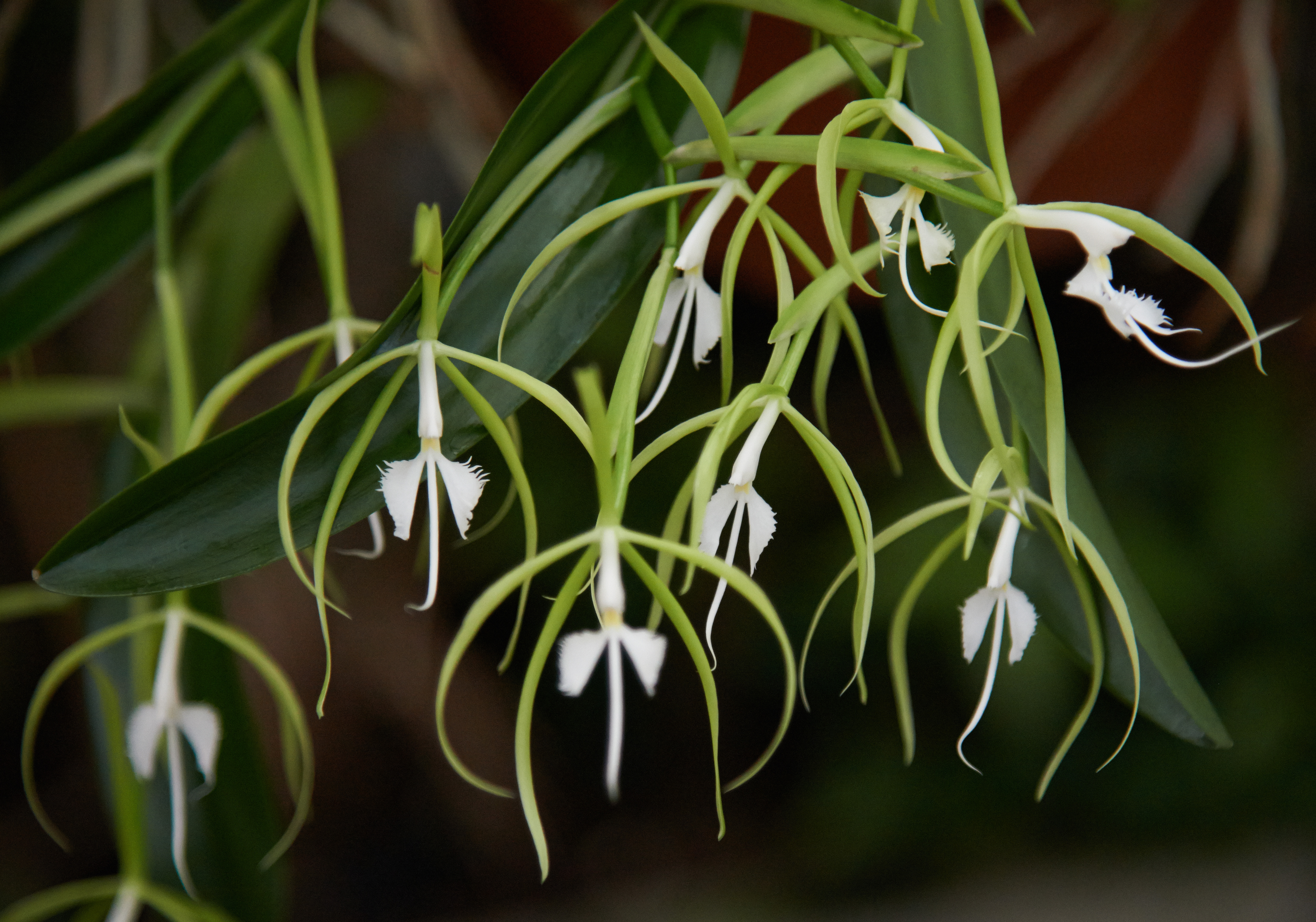 Epidendrum ciliare. Photo taken at Cymbiflor, Overijse, Belgium